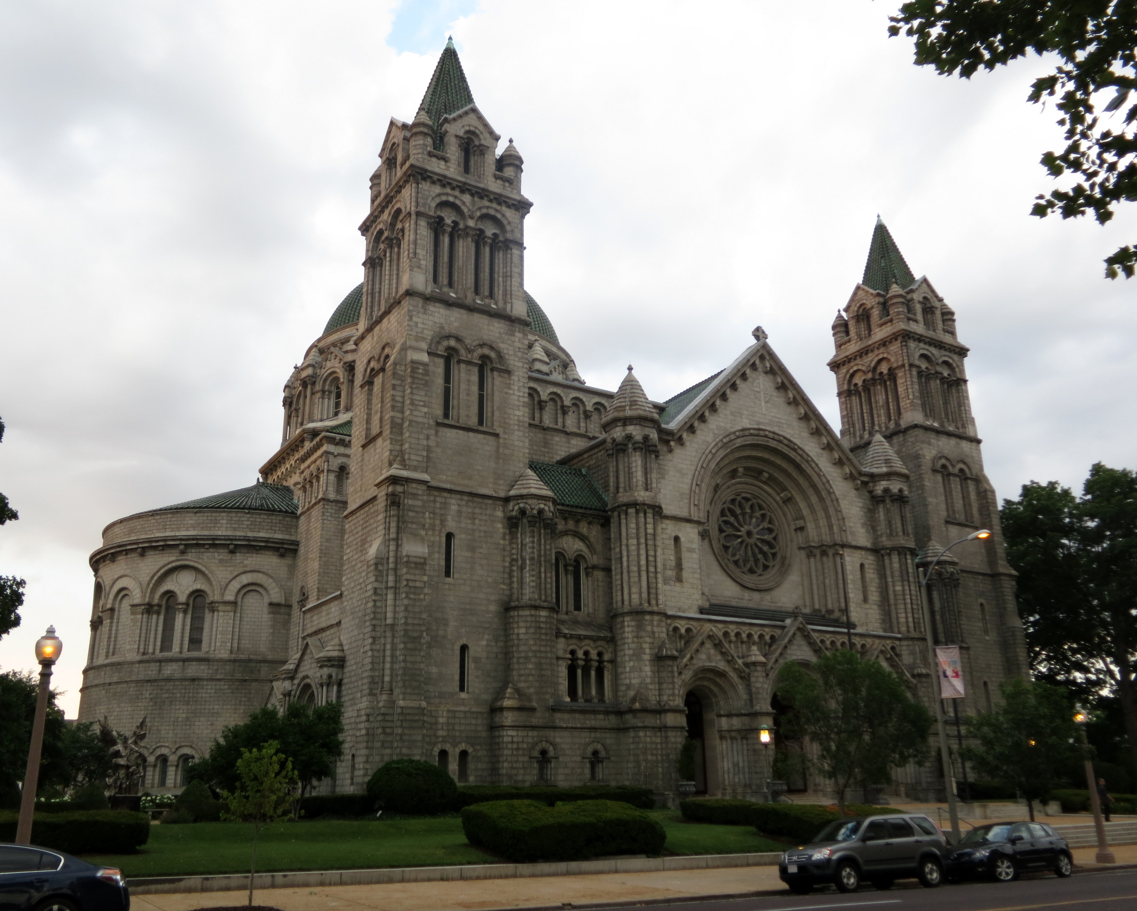 Cathedral Basilica of Saint Louis (St. Louis, MO) - exterior, quarter view